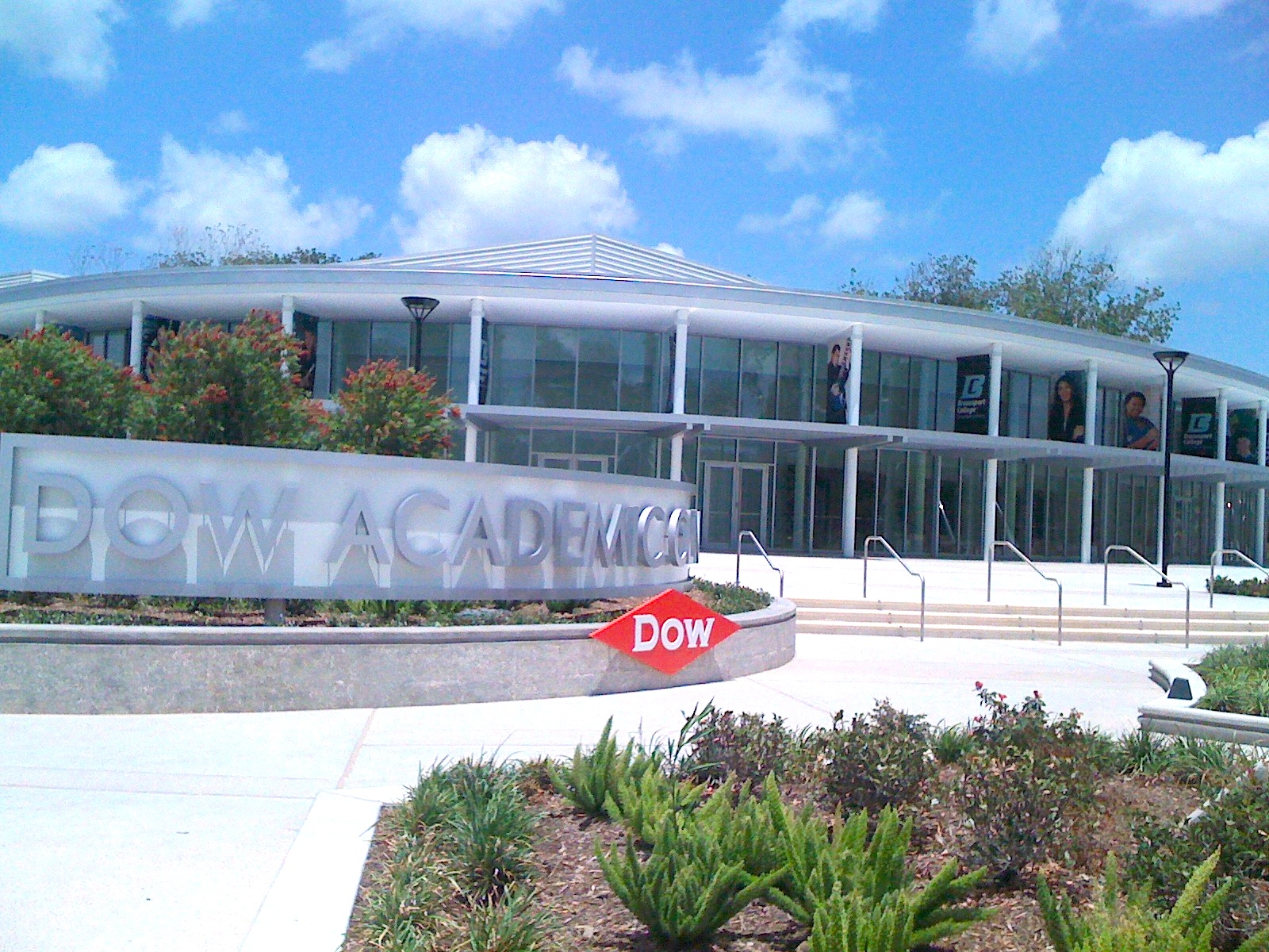 The Dow Academic Center on the campus of Brazosport College. The center was a joint effort between the college and The Dow Chemical Company.